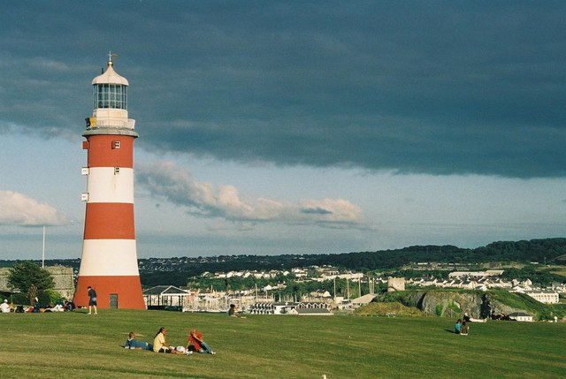 Clouds over the Hoe